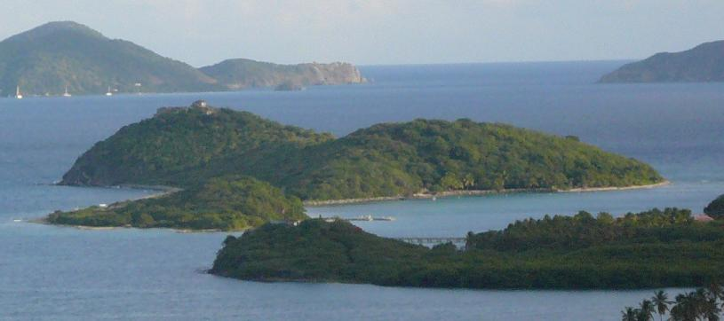 Buck Island, British Virgin Islands - view from Long Look, Tortola.